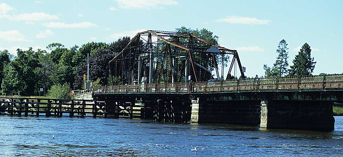 Berkley-Dighton Bridge between Berkley and Dighton, Massachusetts. Built in 1896, it was the oldest swing bridge in the United States at the time of its closure (and dismantling) in 2010.